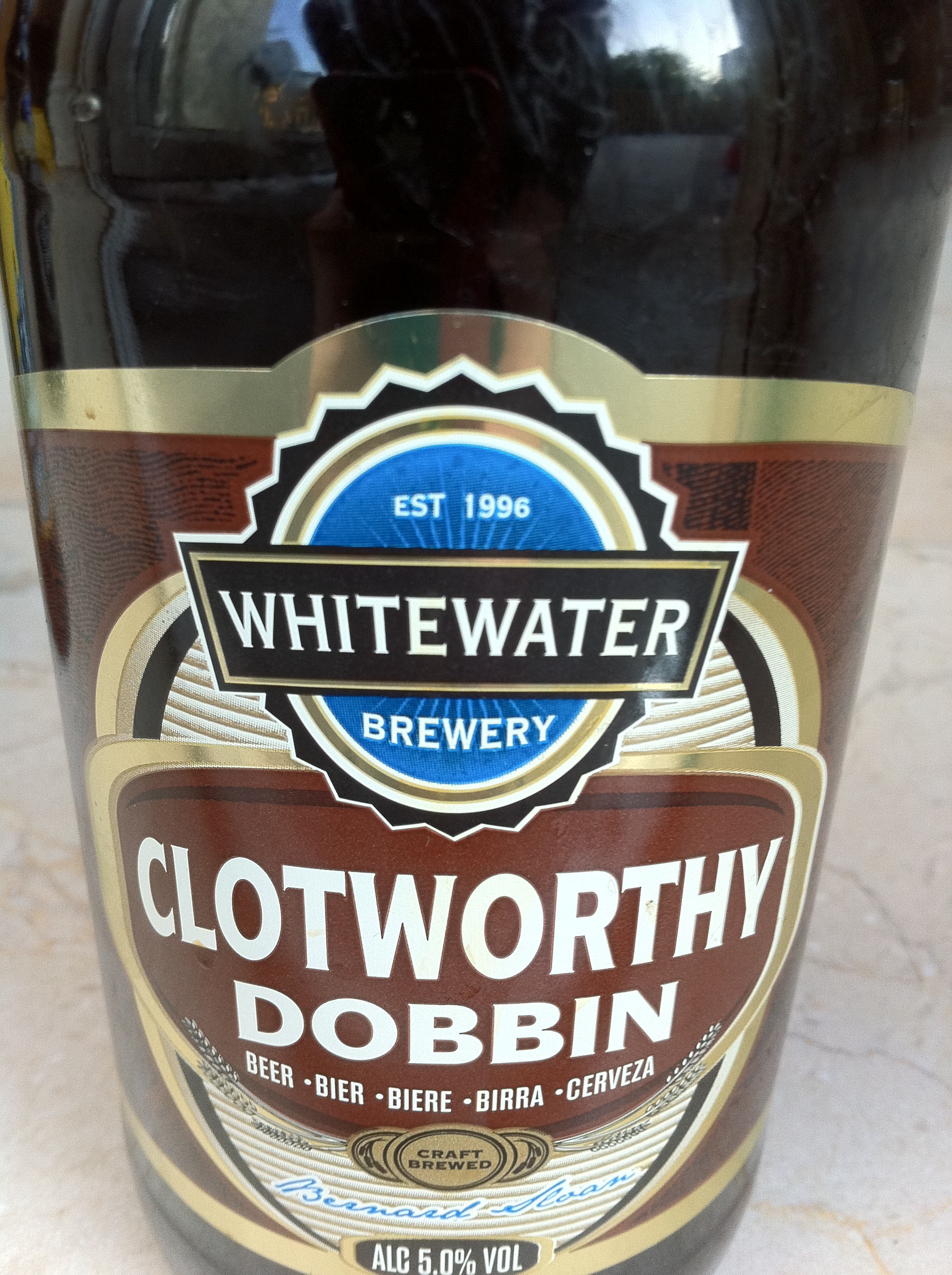 Bottled Clotworthy Dobbin from Whitewater Brewery. Clotworthy is a rich ruby porter style beer.